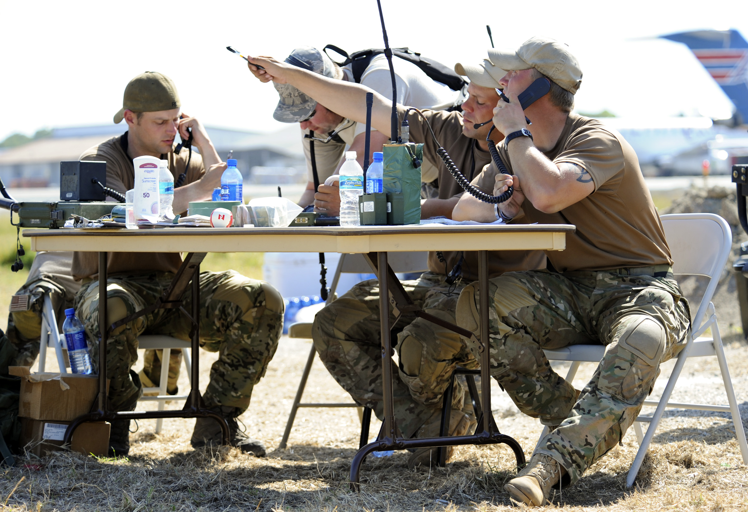 Combat controllers from the 23d Special Tactics Squadron at Hurlburt Field, Florida, talk to aircraft circling the Toussaint L'Ouverture International Airport in Port-au-Prince, Haiti, January 23, 2010. In the initial days of Operation Unified Response air operations were similar to the Berlin Airlift with aircraft landing every five minutes.